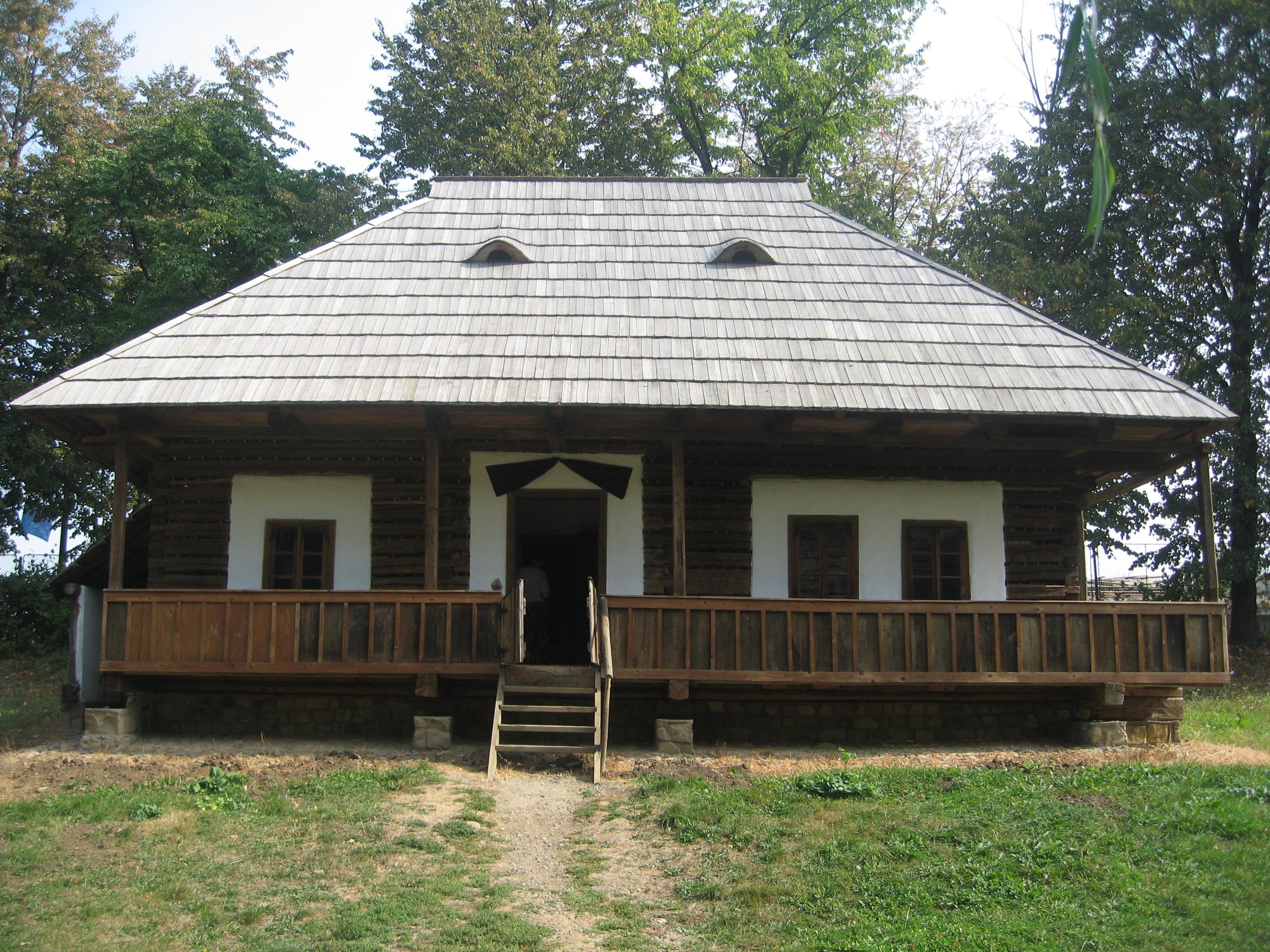 Bukovina Village Museum - The Cacica House, Humor ethnographic area.